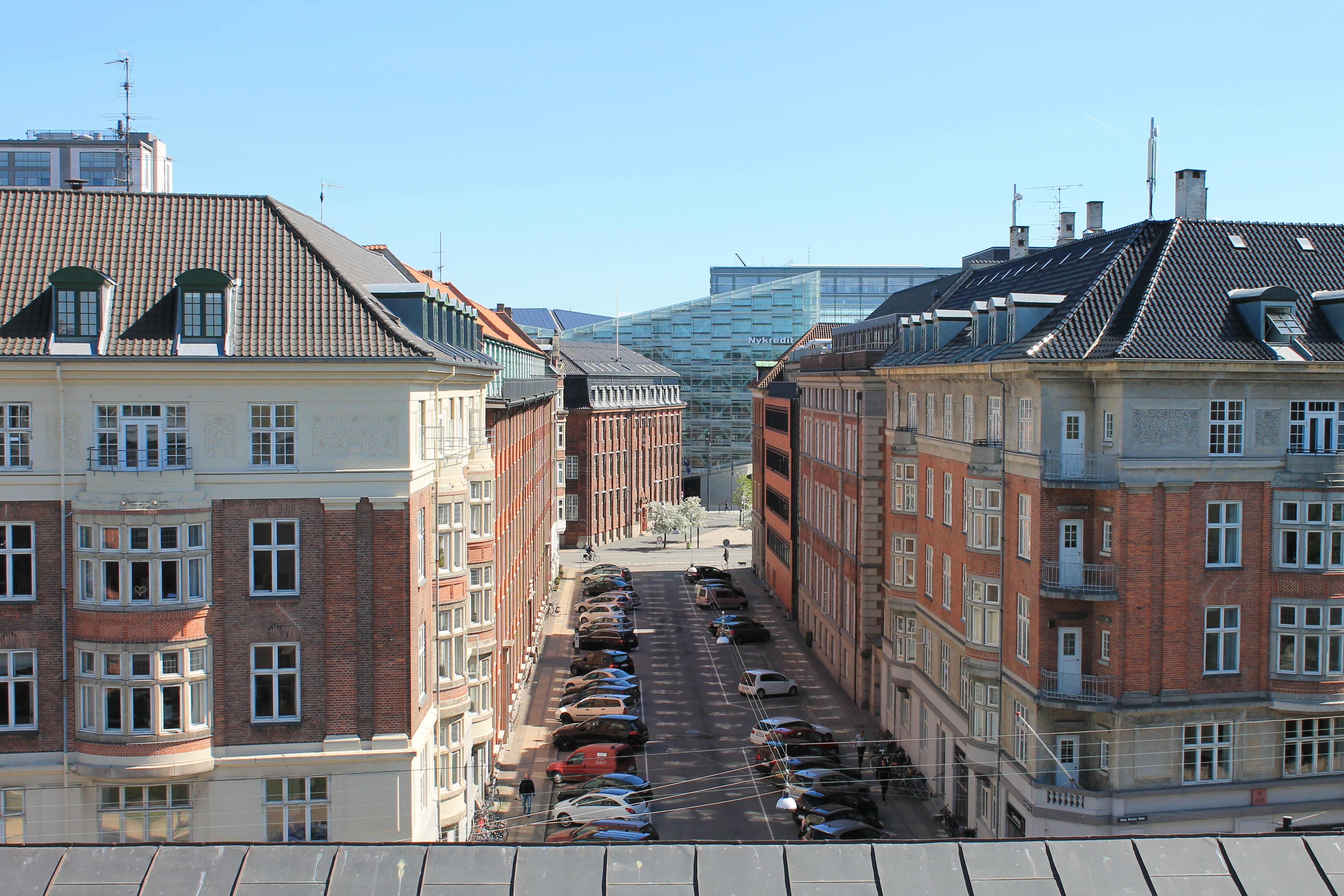 Anker Heegaards Gade Viewed from the roof of Ny Carlsberg Glyptotek, Copenhagen, Denmark